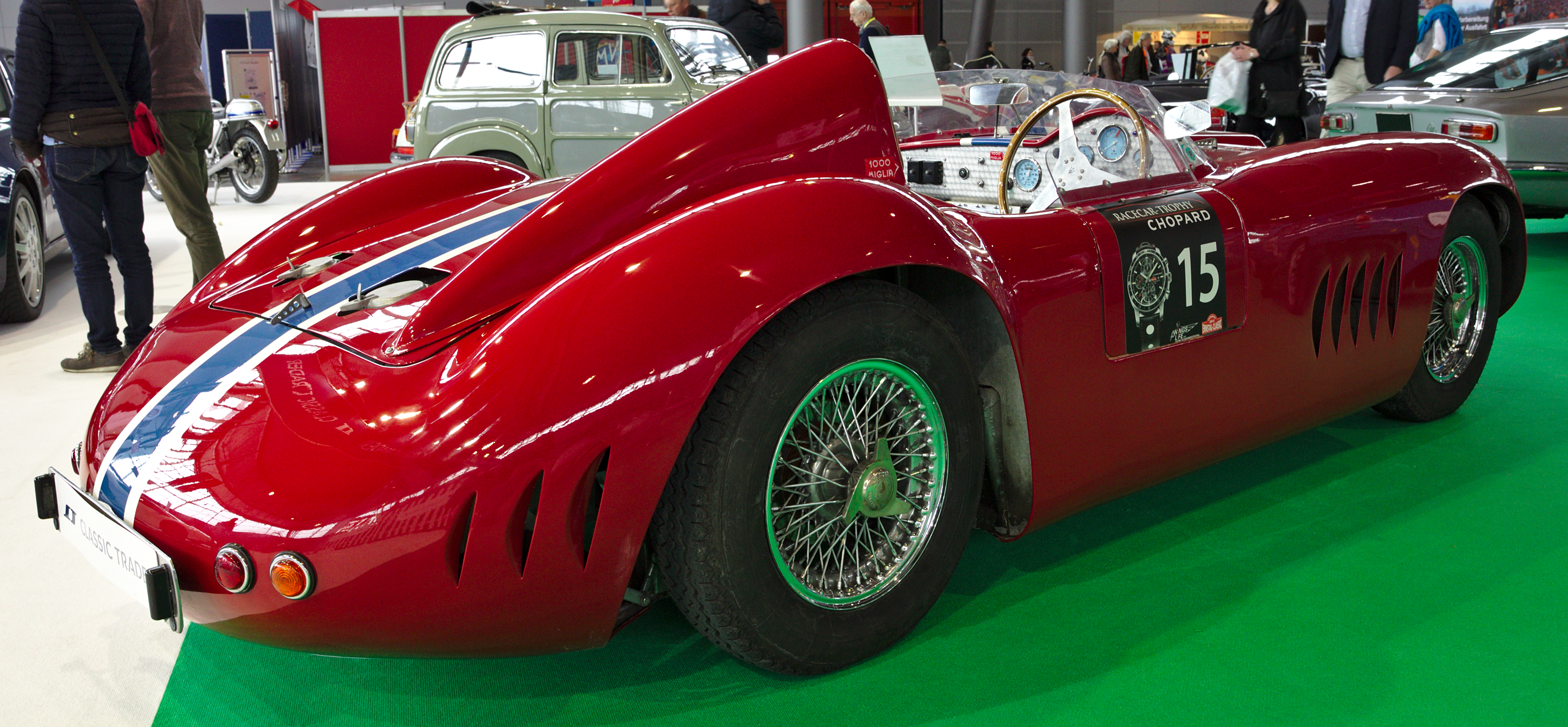 Maserati 350 S at Retro Classics 2018